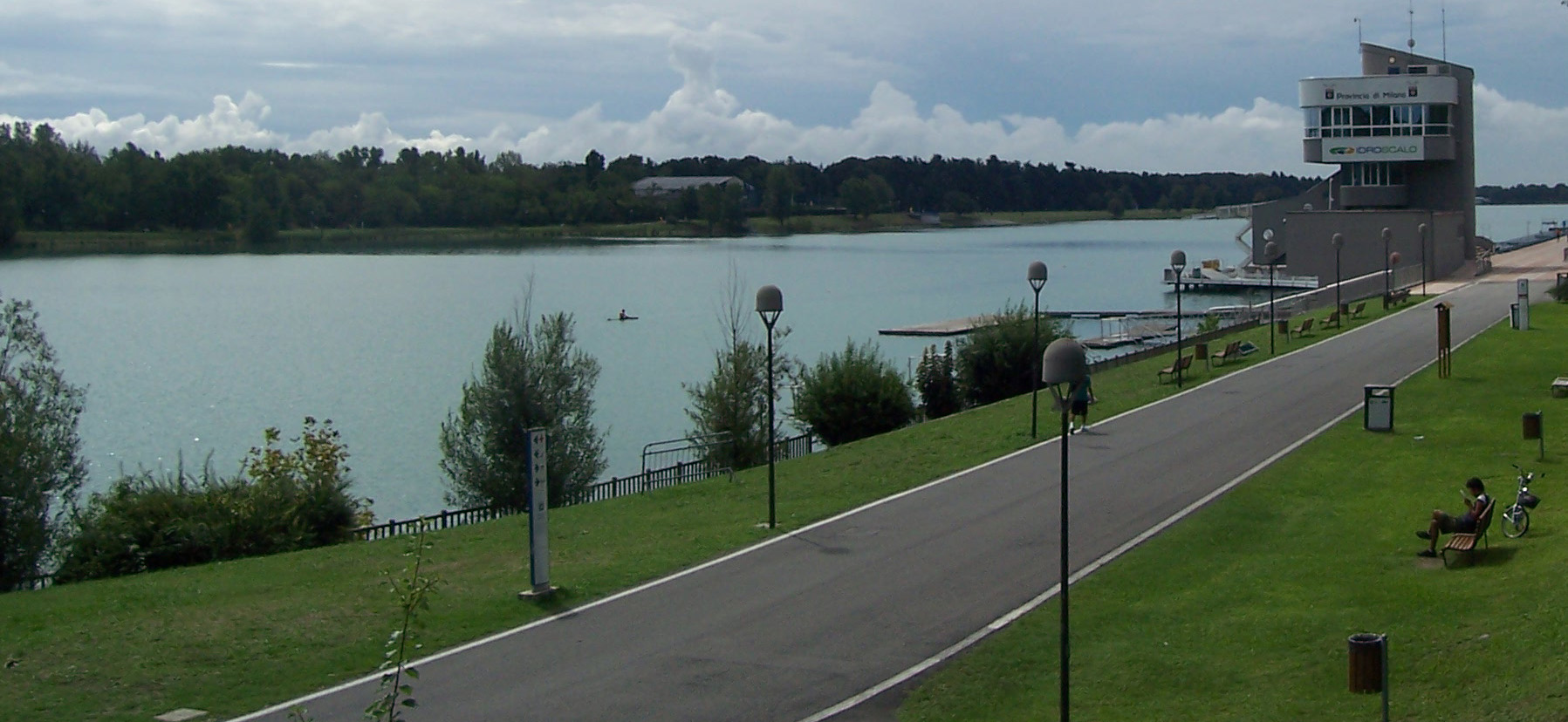 Idroscalo, Mialn (Italy)